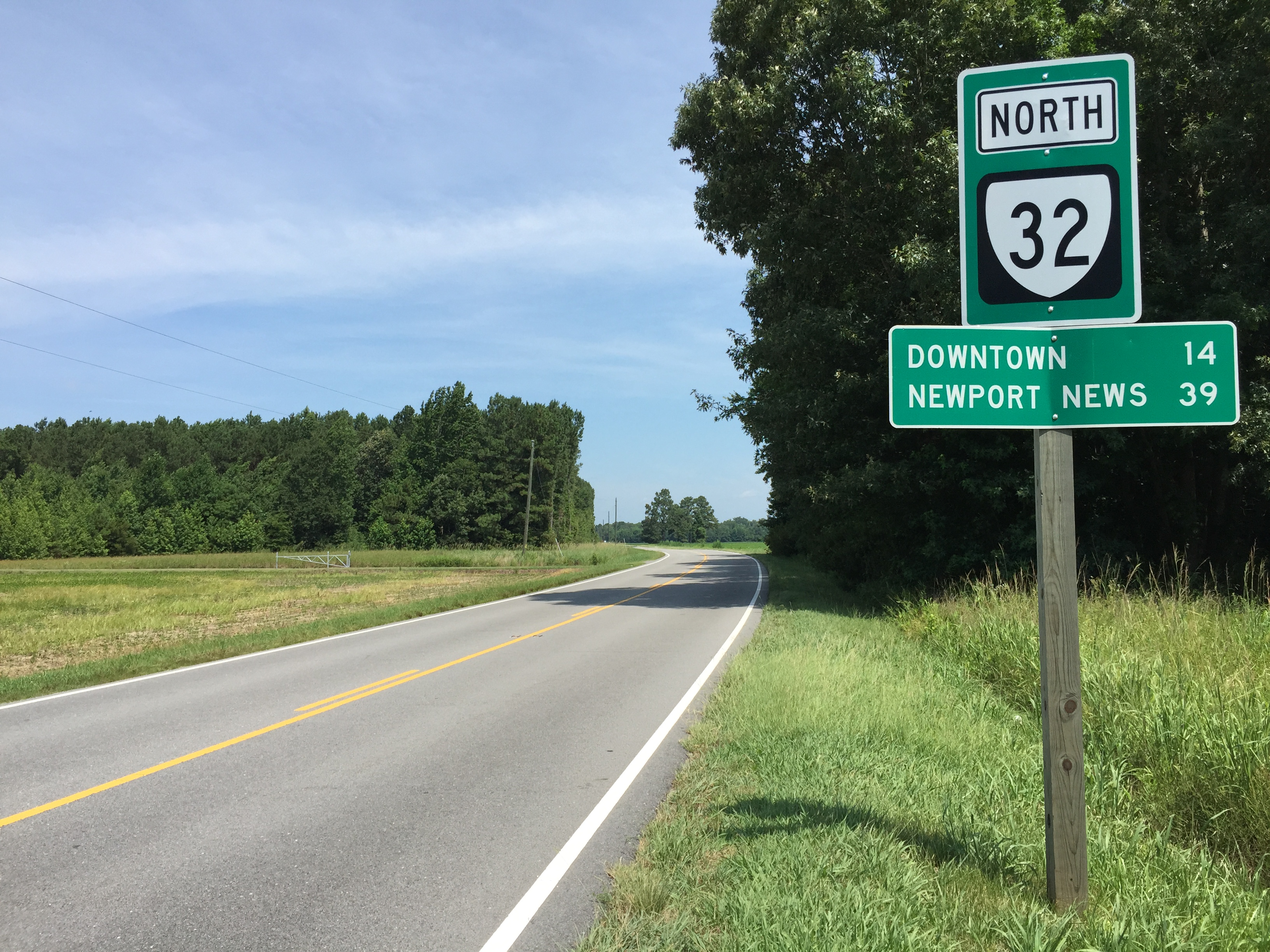 View north along Virginia State Route 32 (Carolina Road) south of Deer Forest Road (Virginia State Secondary Route 678) in Suffolk, Virginia